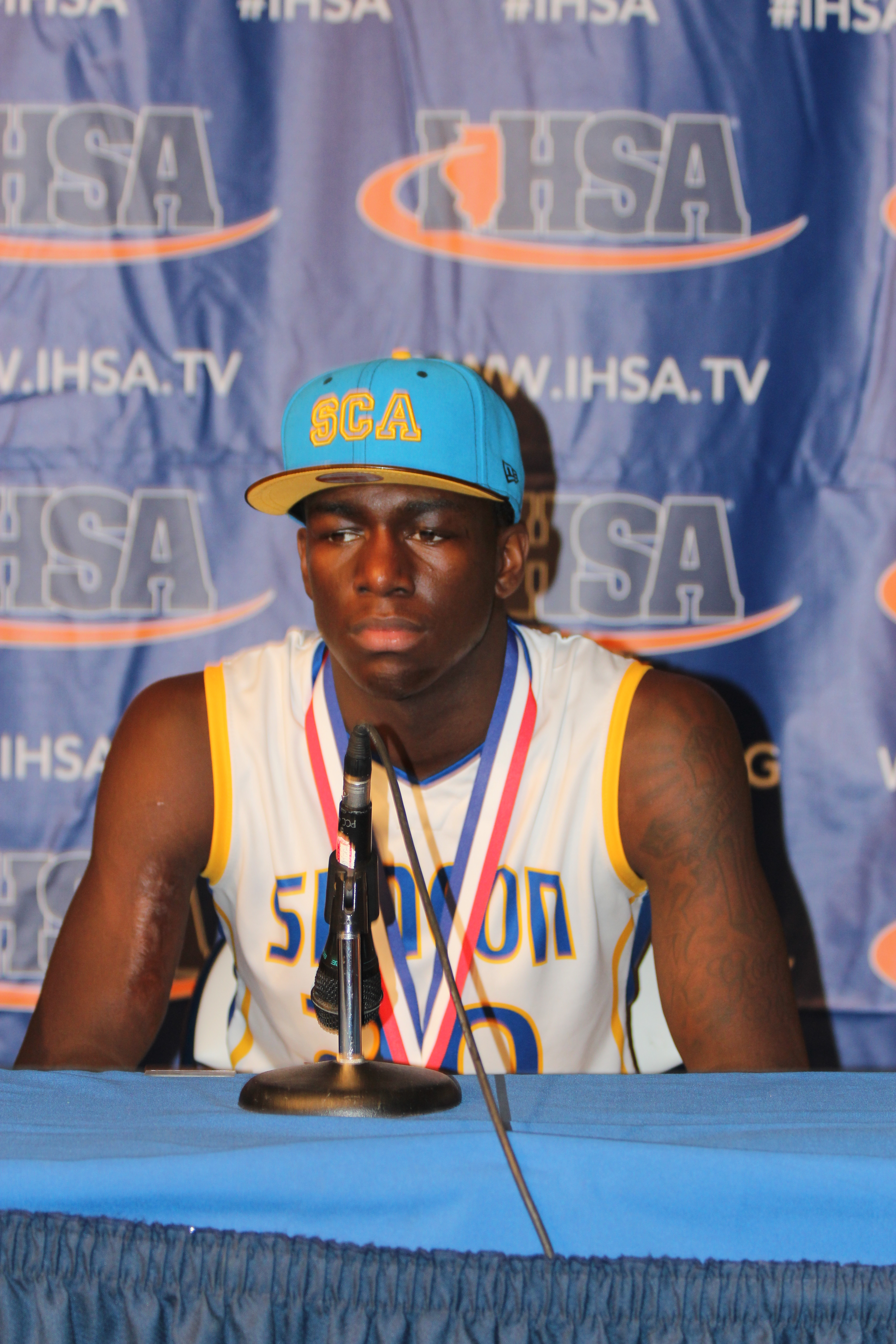 Kendrick Nunn in the 2013 Class 4A Illinois High School Association championship game